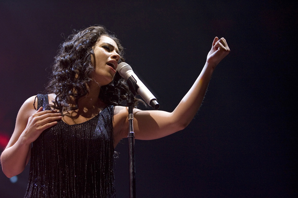 Alicia Keys at Pavilhão Atlântico, Lisbon, Portugal.